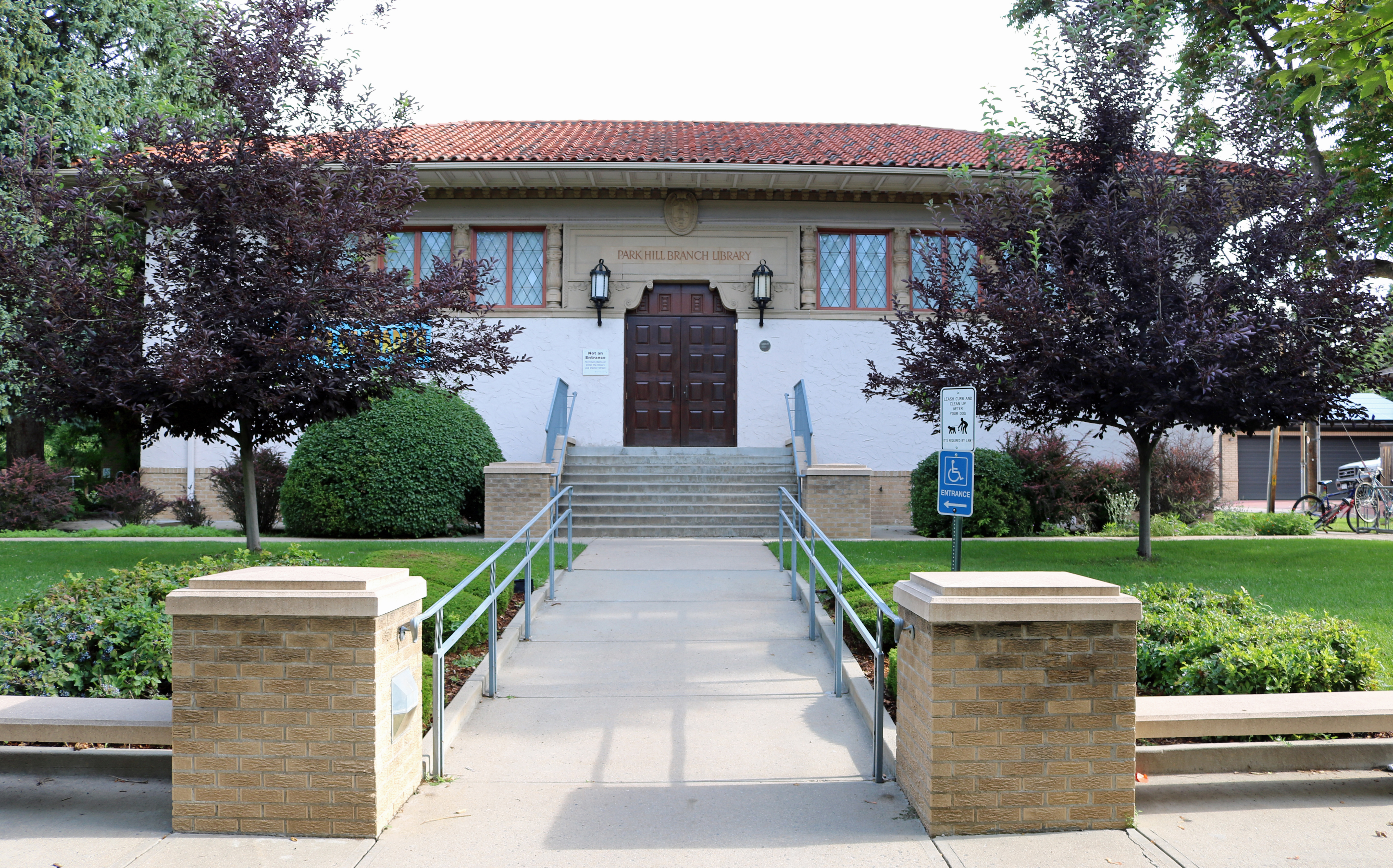 The Park Hill Branch Library, located at 4705 Montview Boulevard in Denver, Colorado. The library is a branch of the Denver Public Library.